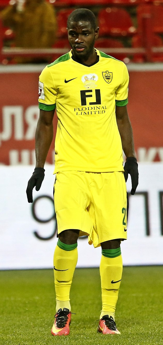 Jonathan Mensah